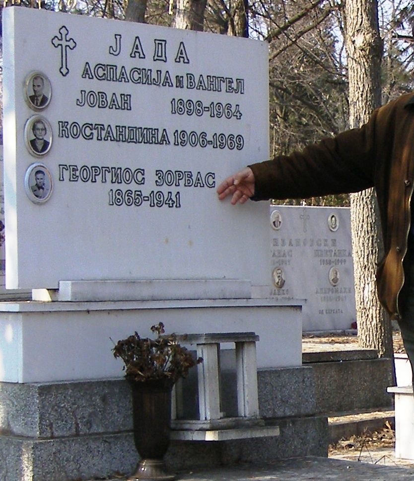 Grave of Georgios Zorbas, prototype of Kazantzakis's Alexis Zorbas